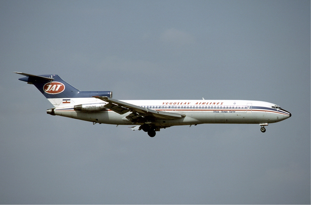 A Boeing 727 of JAT Yugoslav Airlines at Zurich Airport